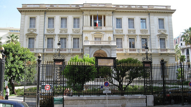 The back (north side) of Villa Masséna in Nice, France.